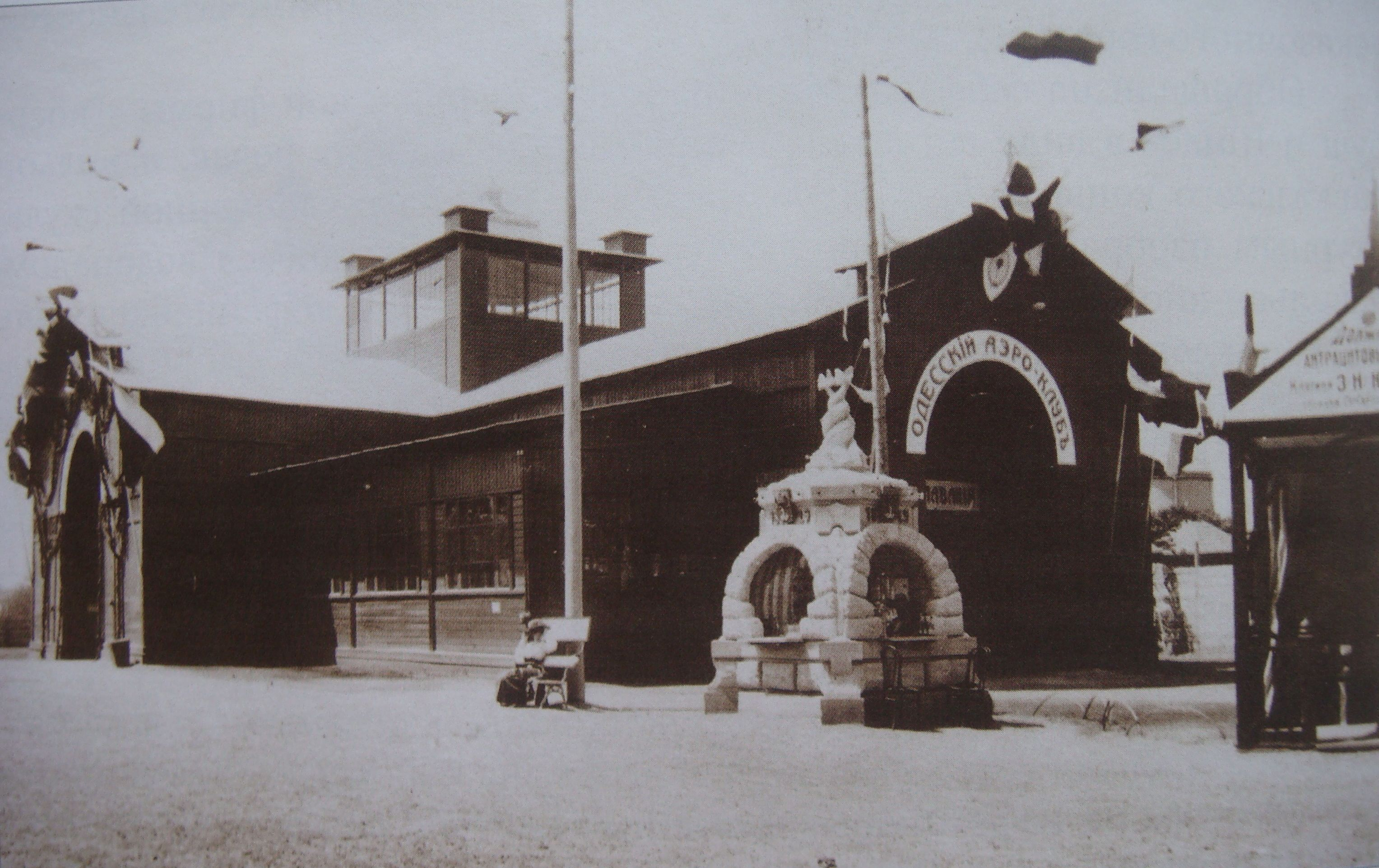 Aviation pavilion at Odessa Art & Industry Exposition. 1910.